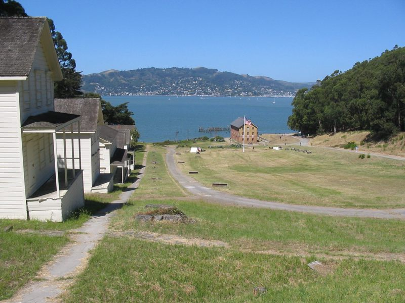 Camp Reynolds (West Garrison), Angel Island, CA. Photo by Stephen Gross, June 2005.